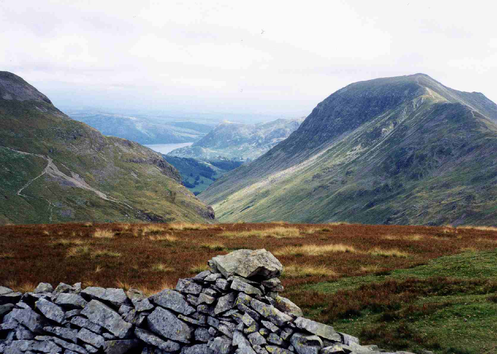 Looking down Grisedale to Ullswater in the far distance from Seat Sandal summit, St Sunday Crag is the fell on the right. Personal picture taken by Mick Knapton